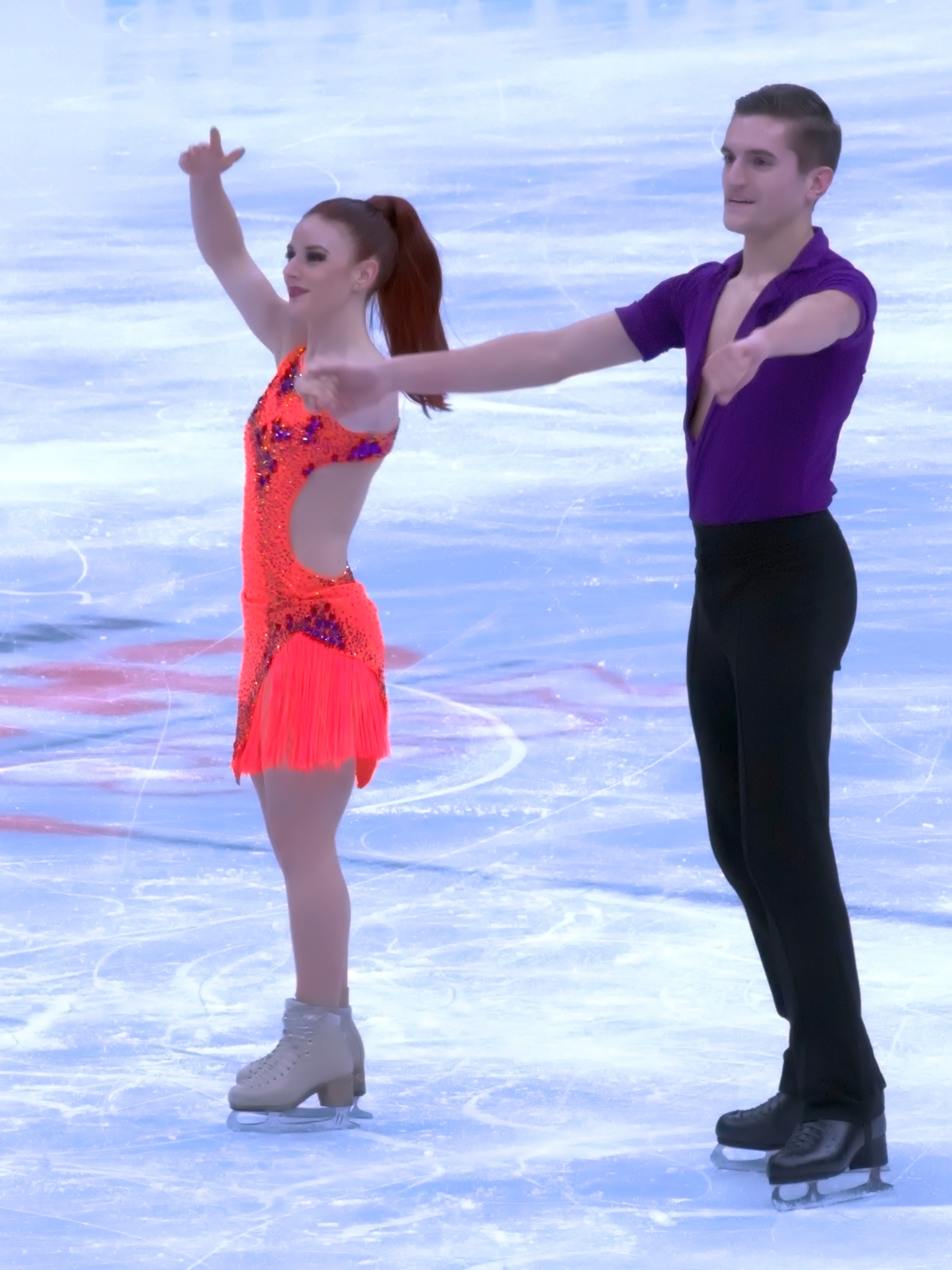 Marie-Jade Lauriault & Romain Le Gac at the 2018 European Figure Skating Championships in Moscow